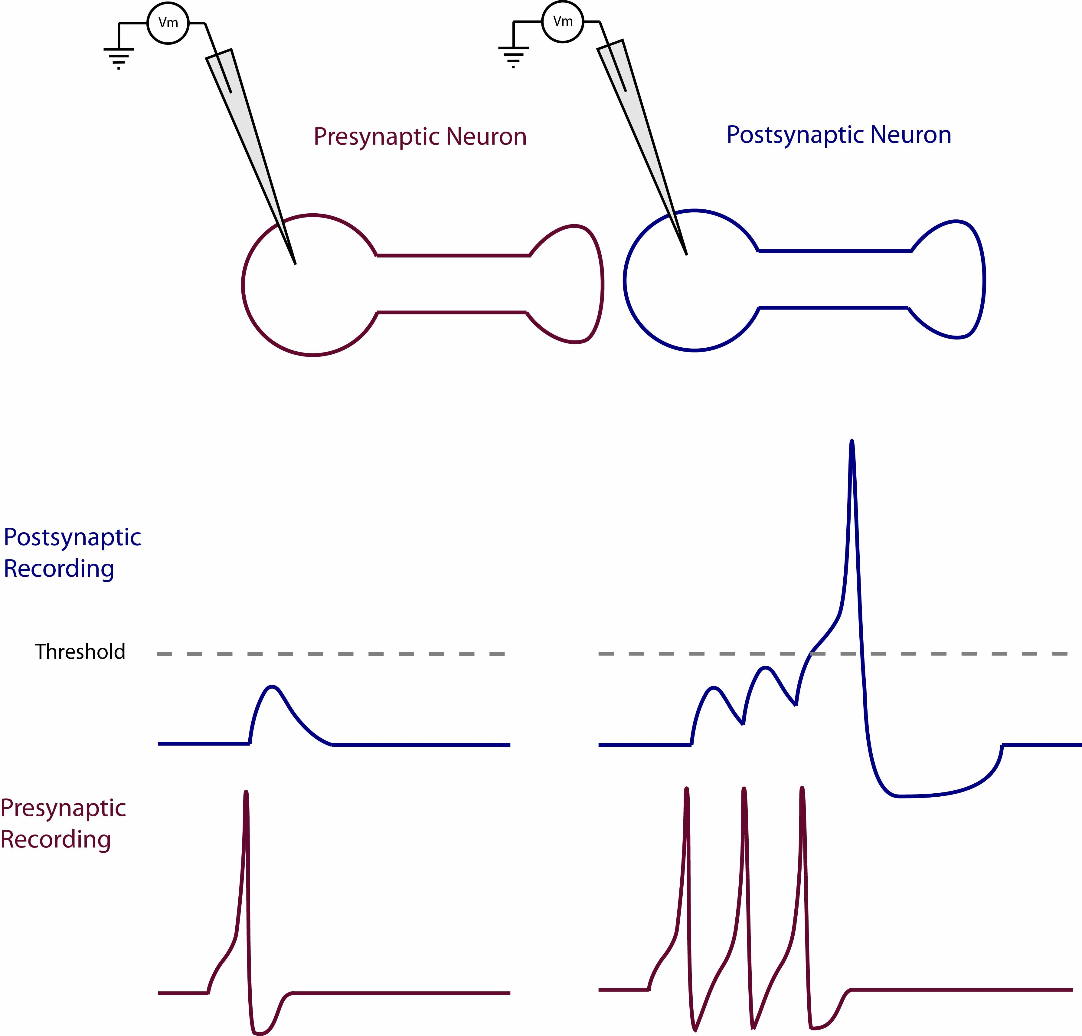 Temporal Summation of EPSPs. The trace on the left shows the EPSP generated by a single spike in the presynaptic neuron. The trace on the right shows the EPSPs generated by a burst of spikes in the presynaptic neuron. Notice how the EPSPs resulting from the burst of spikes is able to reach the threshold of eliciting an action potential in the postsynaptic neuron.